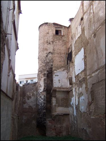 Angel's Tower (Arabic wall of Valencia)